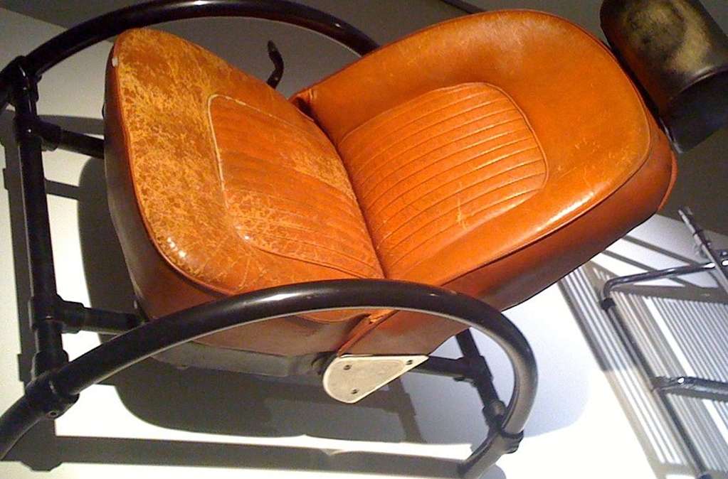 Ron Arad's Leather Rover Chair at 2010 exhibition in Barbican, London